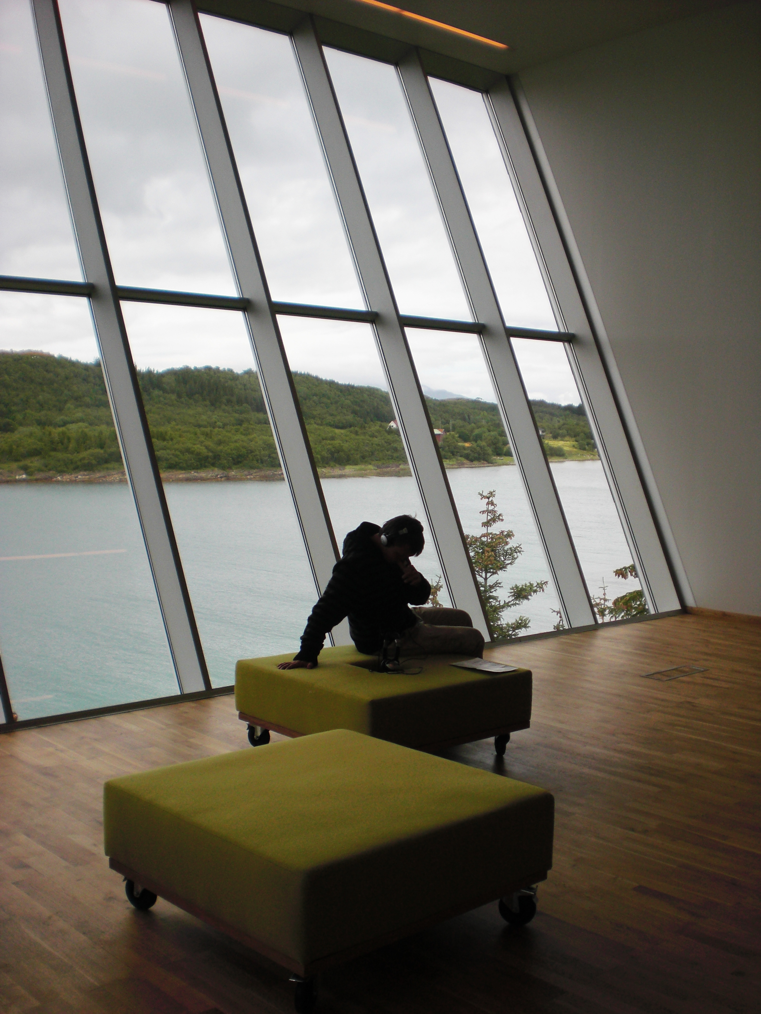 Listening to music and sounds being part of the exchibition of the Petter Dass Museum in Norway.